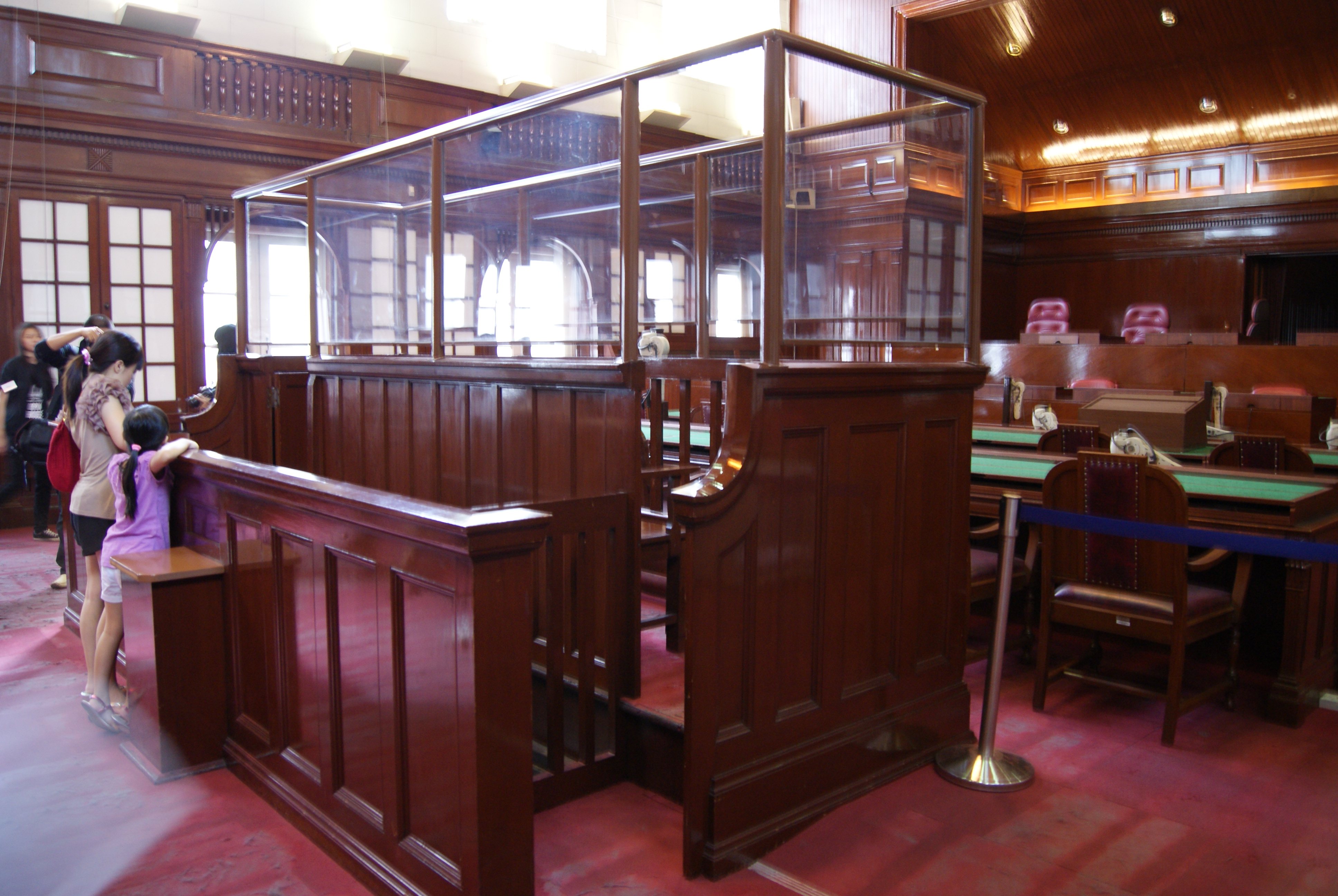 The dock of the Court of Appeal courtroom of the Old Supreme Court Building, Singapore.